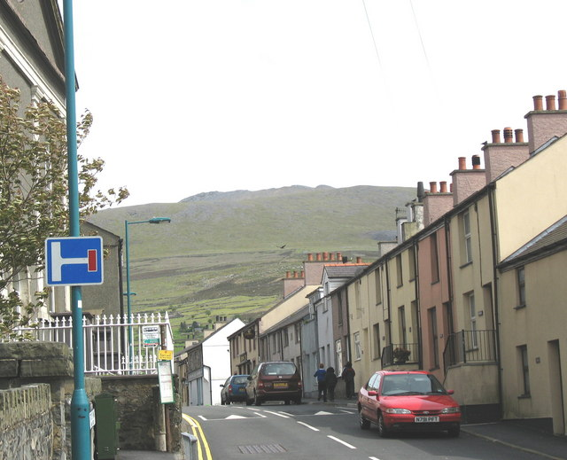 The Lower End of Y Stryd Fawr (High Street) , Deiniolen. The chapel on the left is Ebenezer Independent Chapel. Until the 1920s, the village was known as Ebenezer. The mountains in the background are Elidir Fach and, peeping above it, Elidir Fawr.